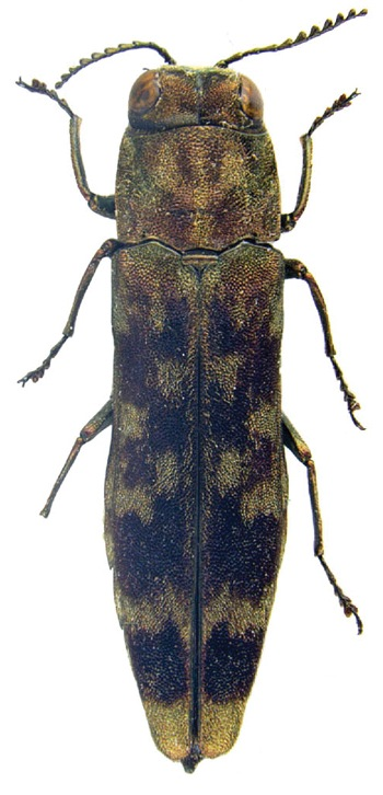 Agrilus zanthoxylumi Li Meng Lou, 1989.